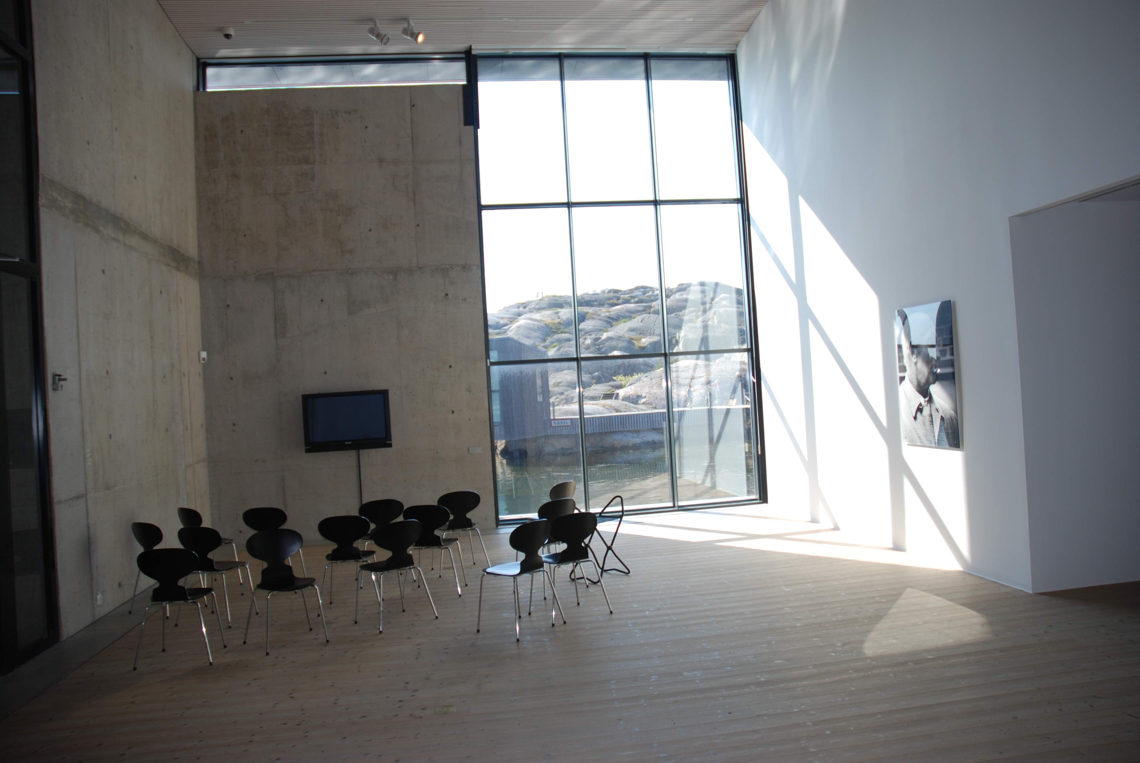 Nordiska Akvarellmuseet in Skärhamn, interior